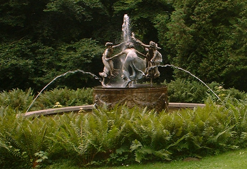 Nymph fountain in the Park of Schlitz Castle in Mecklenburg-Western Pomerania, Germany